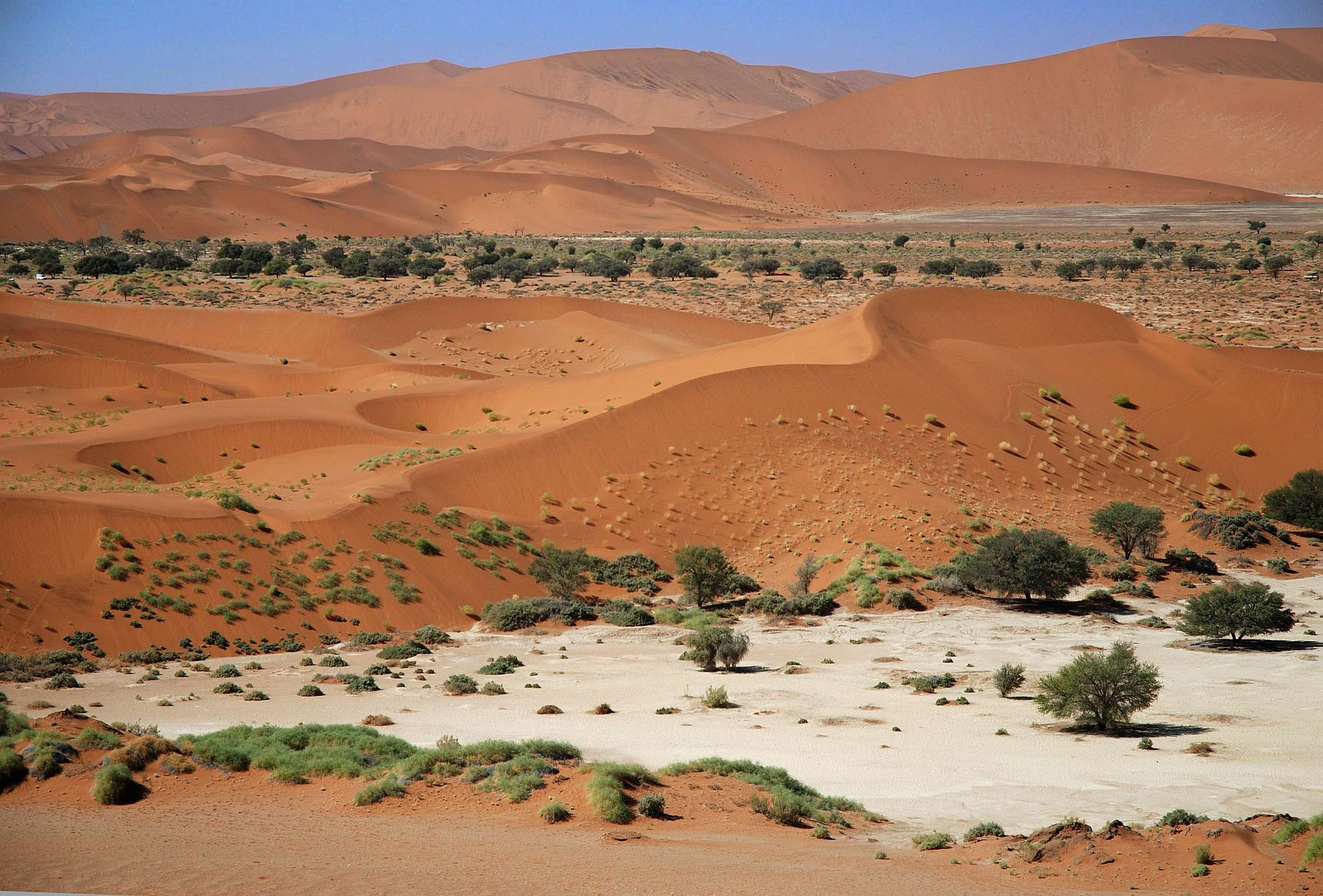 Portion of Sossusvlei, seen from the dunes. Namib desert